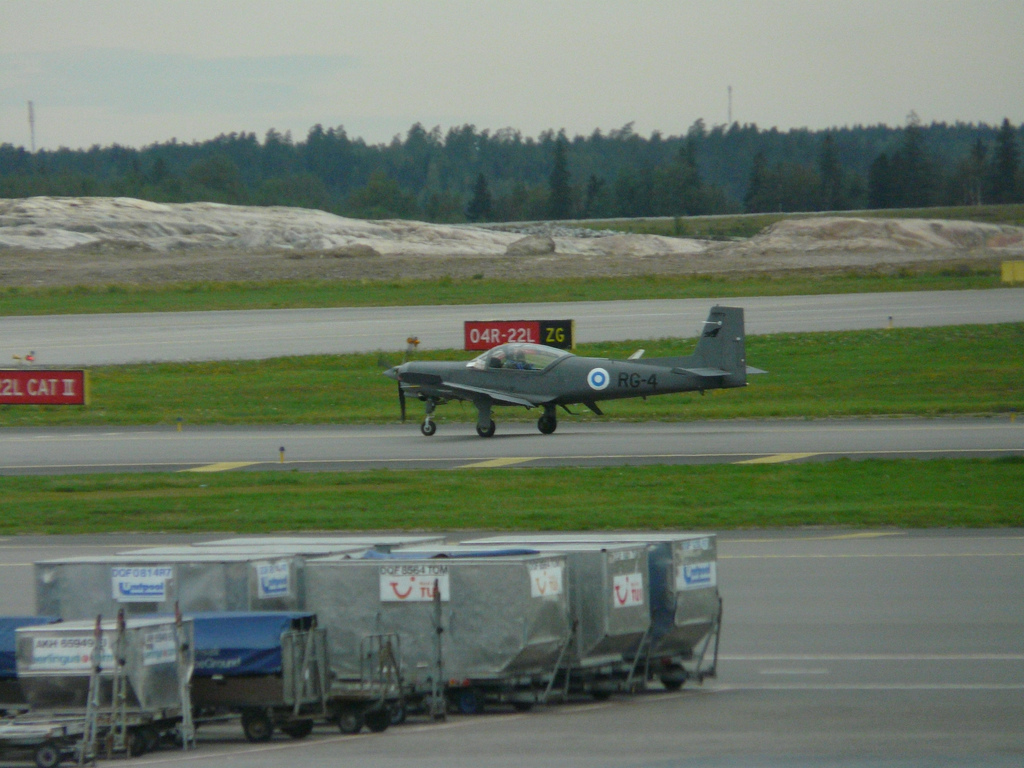 Valmet Redigo at Helsinki-Vantaa airport